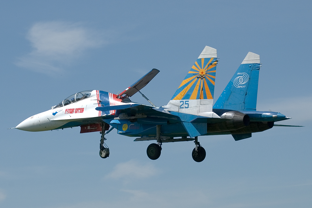 Su-27 from Russian Knights aerobatic team